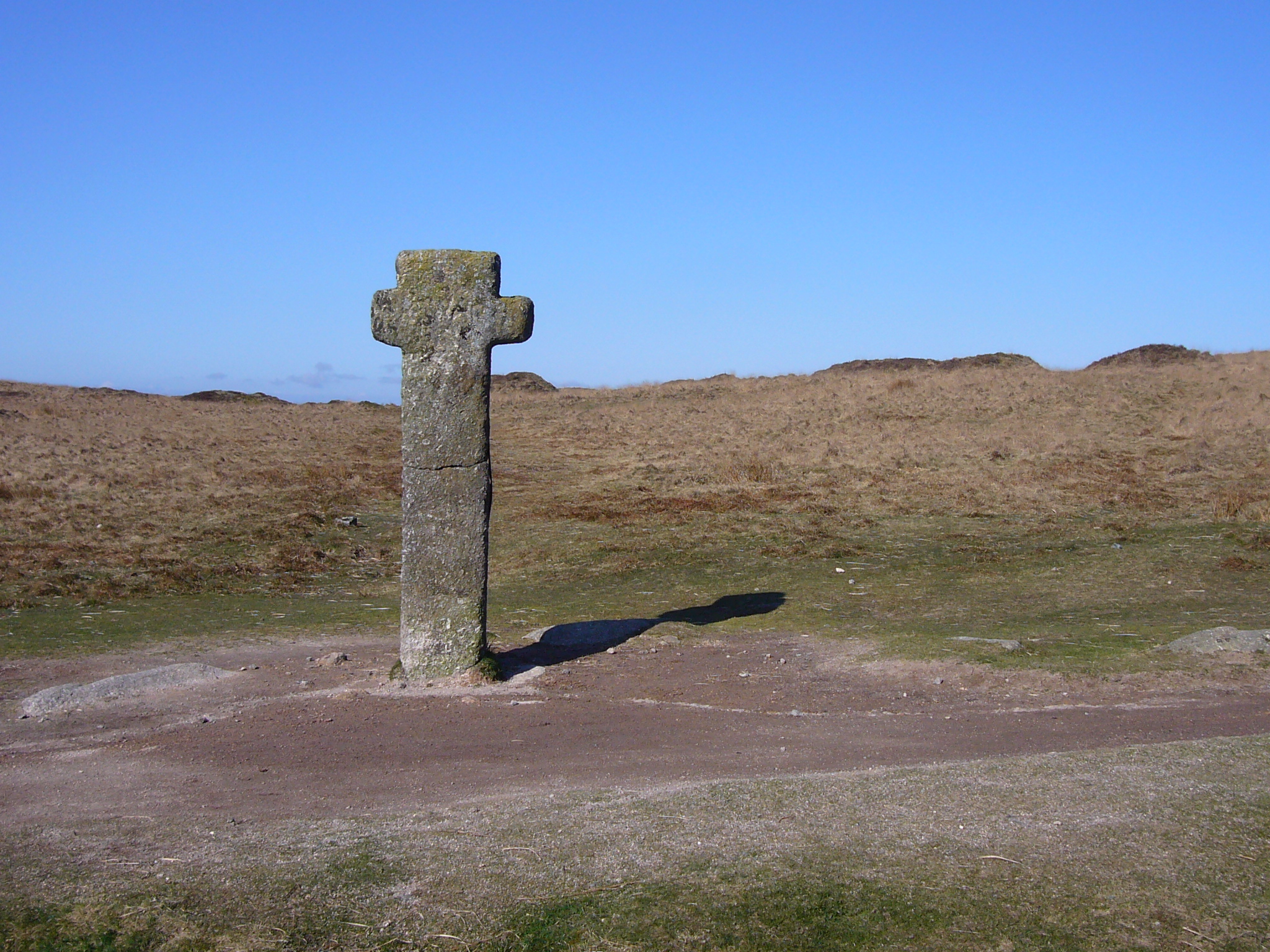 This cross is known as both Nun's Cross (possibly from the Cornu-Celtic Nans meaning valley or ravine) & Siward's Cross (possibly in connection with Siward, Earl of Nothumberland at the time of Edward the Confessor). It may well be late Saxon or early medieval in origin. It may well have been used as a marker for the track from the monastery at Buckfast to the monastery at Tavistock. It is close to Nun's Cross Farm on South Dartmoor.